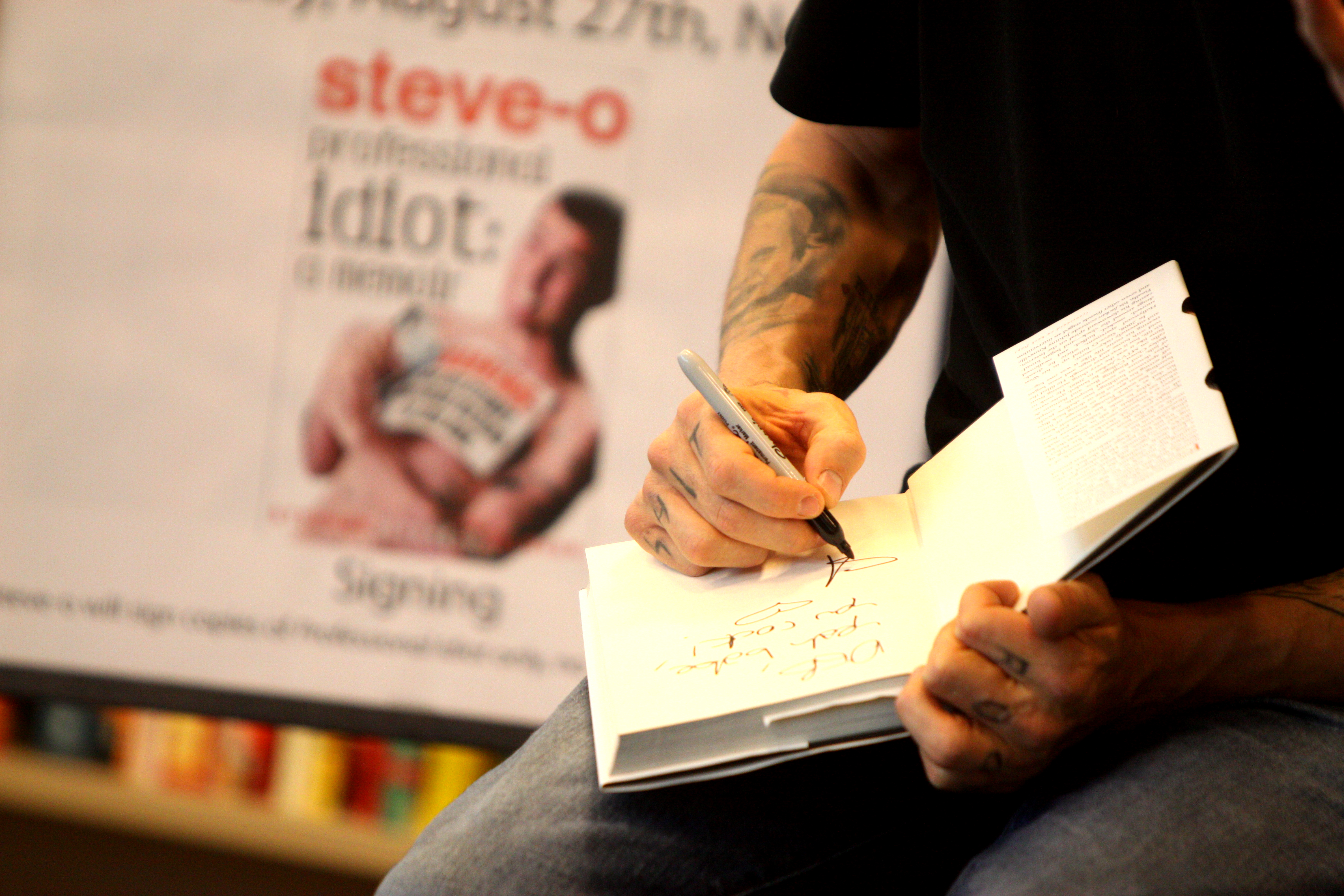 Steve-O, star of the MTV series Jackass, at a book signing in Phoenix, Arizona.